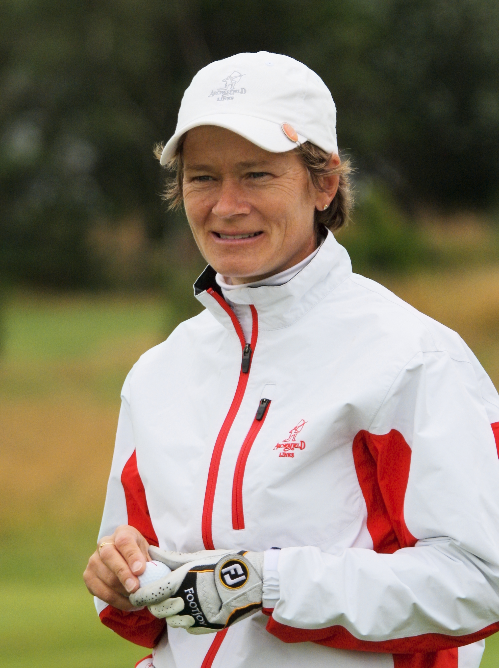 LYTHAM ST ANNES, UNITED KINGDOM - JULY 29: Catriona Matthew of Scotland walks off the 4th green during third practice round before 2009 Ricoh Women's British Open held at Royal Lytham & St Annes on July 29, 2009 in Lytham St Annes, England. (Photo by Wojciech Migda)